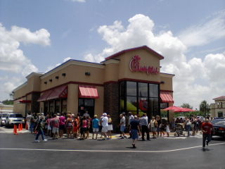 A picture of the Port Charlotte, Florida Chick-Fil-A restaurant on August 01, 2012 (Chick-Fil-A appreciation day)